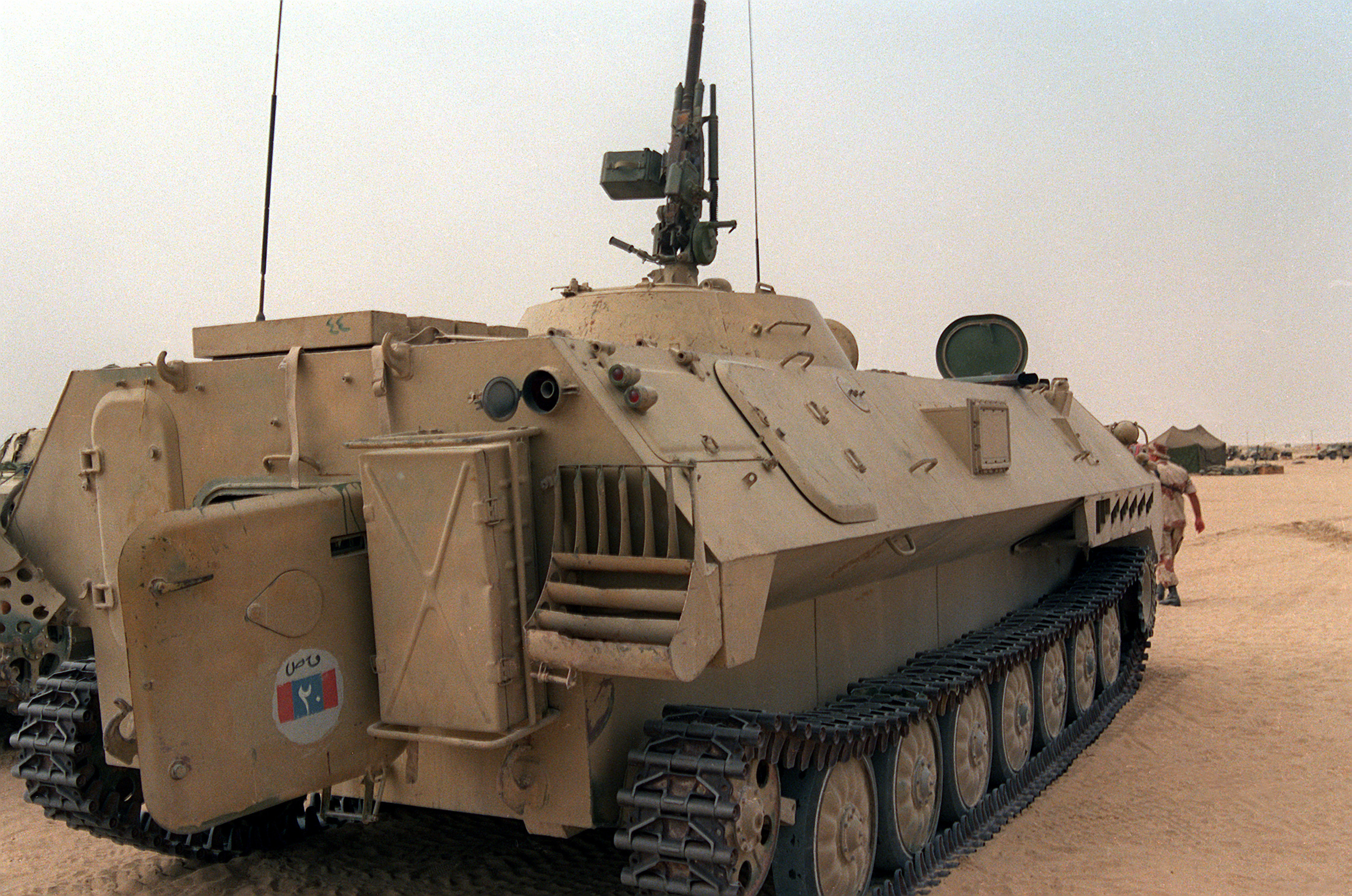 A right rear view of an Iraqi MT-LBu captured during Operation Desert Storm.